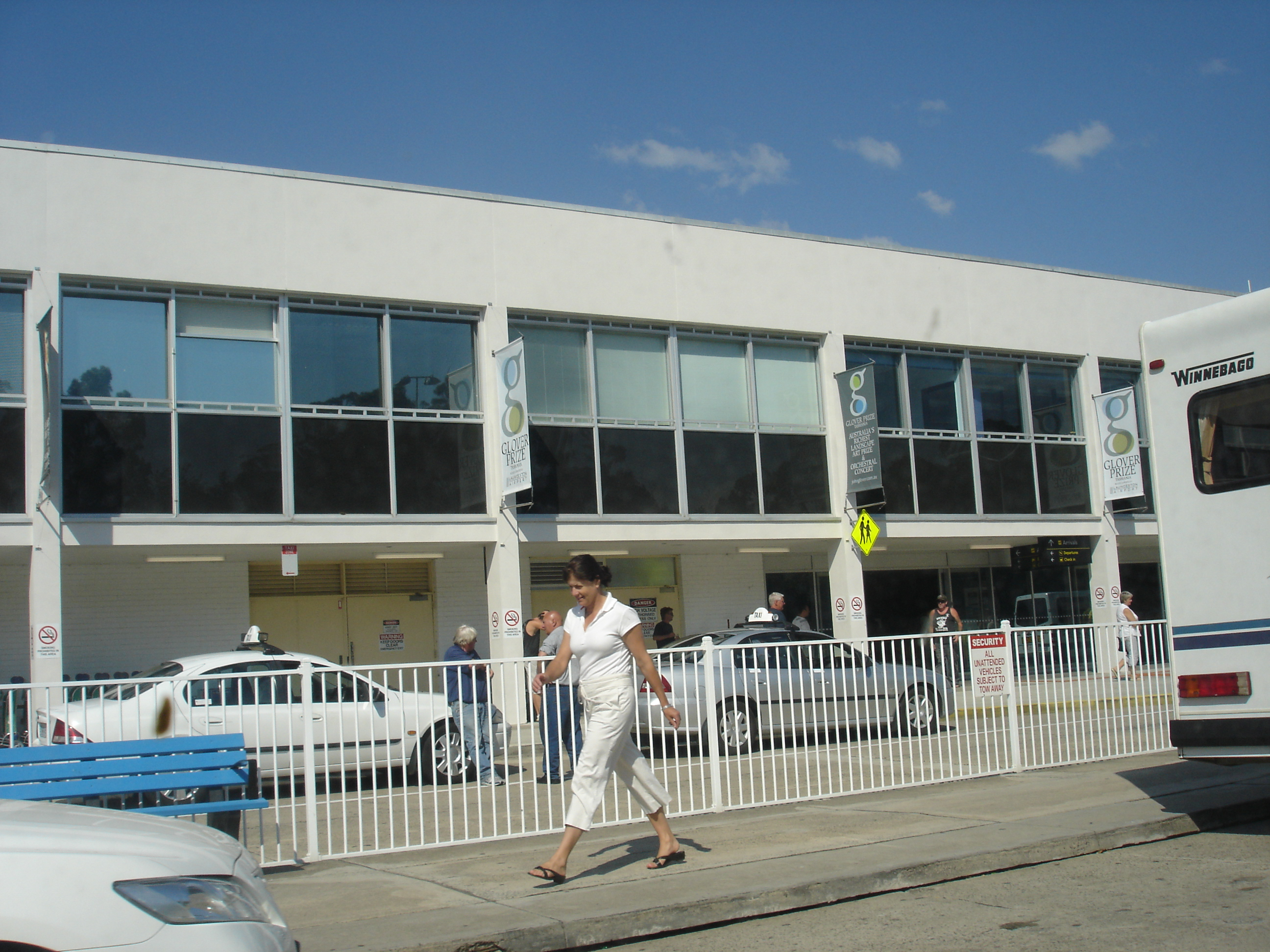 The exterior of Launceston Airport